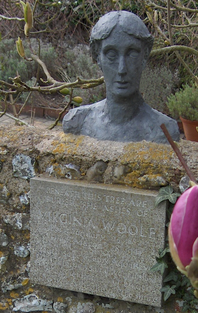 Virginia Woolf, author, born 25. Januar 1882 in London, died 28. März 1941 near Lewes, Sussex. Bust by Stephen Tomlin